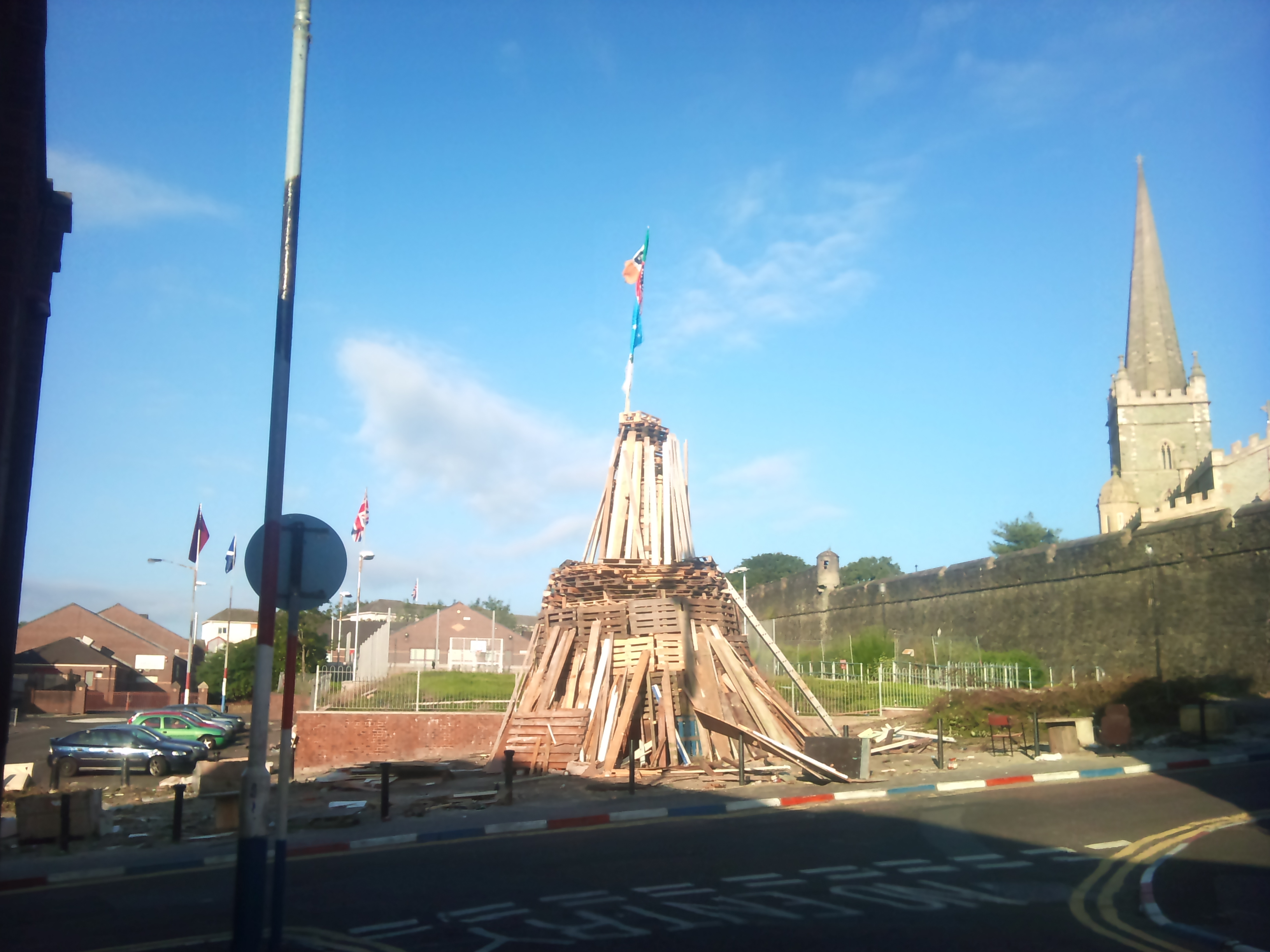 A loyalist bonfire in Derry's Fountain estate in Northern Ireland. The bonfire is being lit to commemorate the Apprentice Boys role in the Siege of Derry. Irish Republican flags are on top of the bonfire to burn.